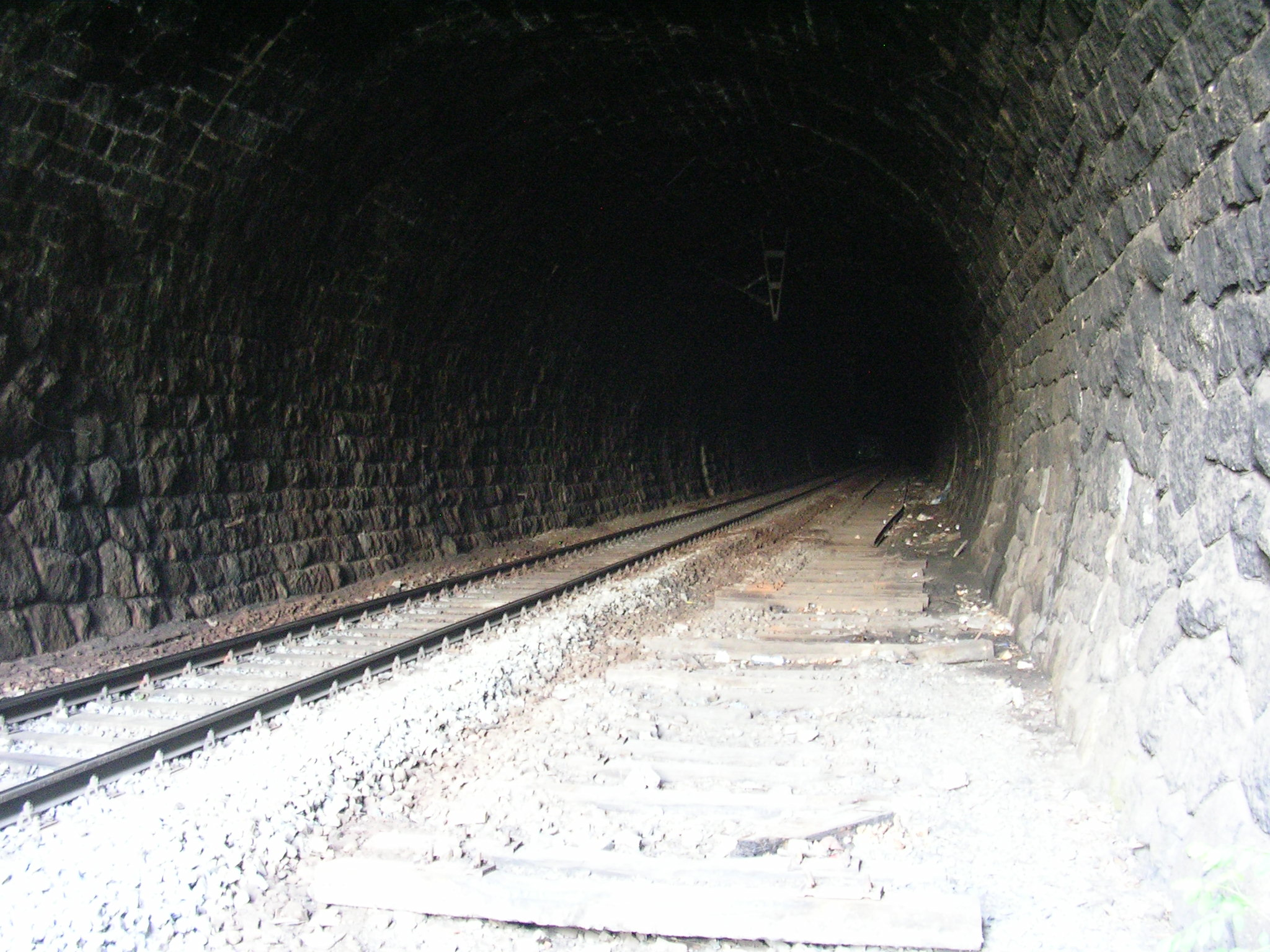 Malešice, Prague, the Czech Republic.